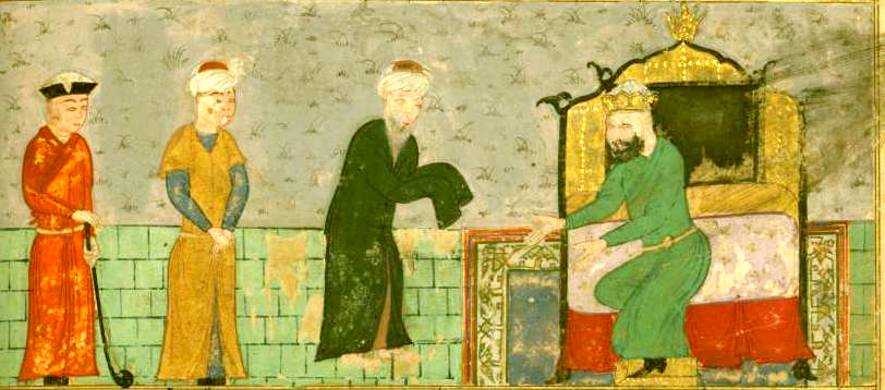 King Qizil Arslan Welcomes the Poet Nizami, Walters W60494B - Full Page